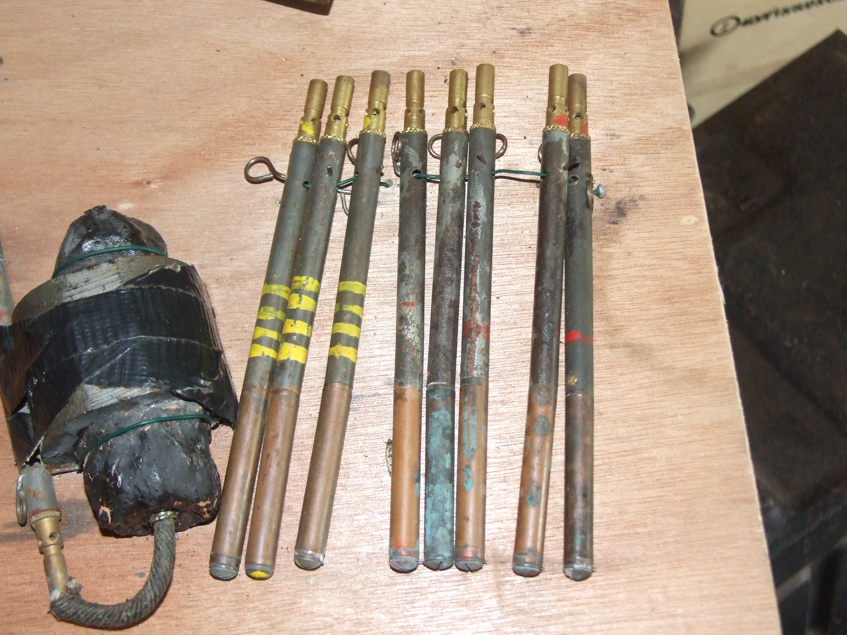 Parham Airfield Museum, Parham airfield, Suffolk. Museum of the British Resistance Organisation: timer pencils intended to provide a delayed explosion.